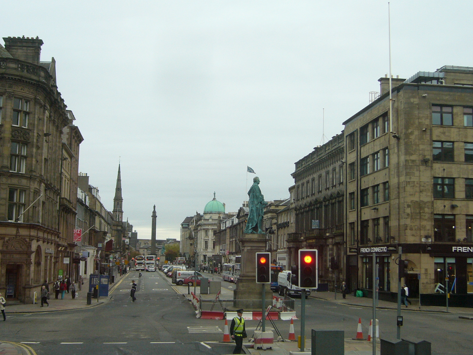 George Street, Edinburgh